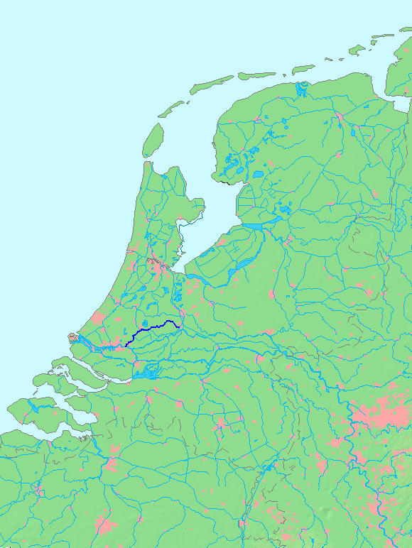 Location of a waterway (river/canal) in the Netherlends